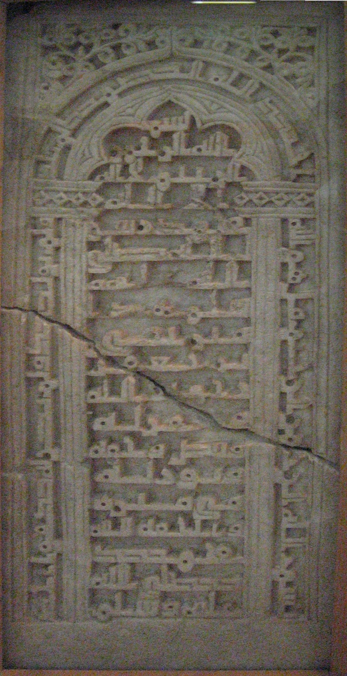 Pierre tombale, Kufic, Yahyia ibn Jafar, Nishabur. National Iran Museum, Tehran.